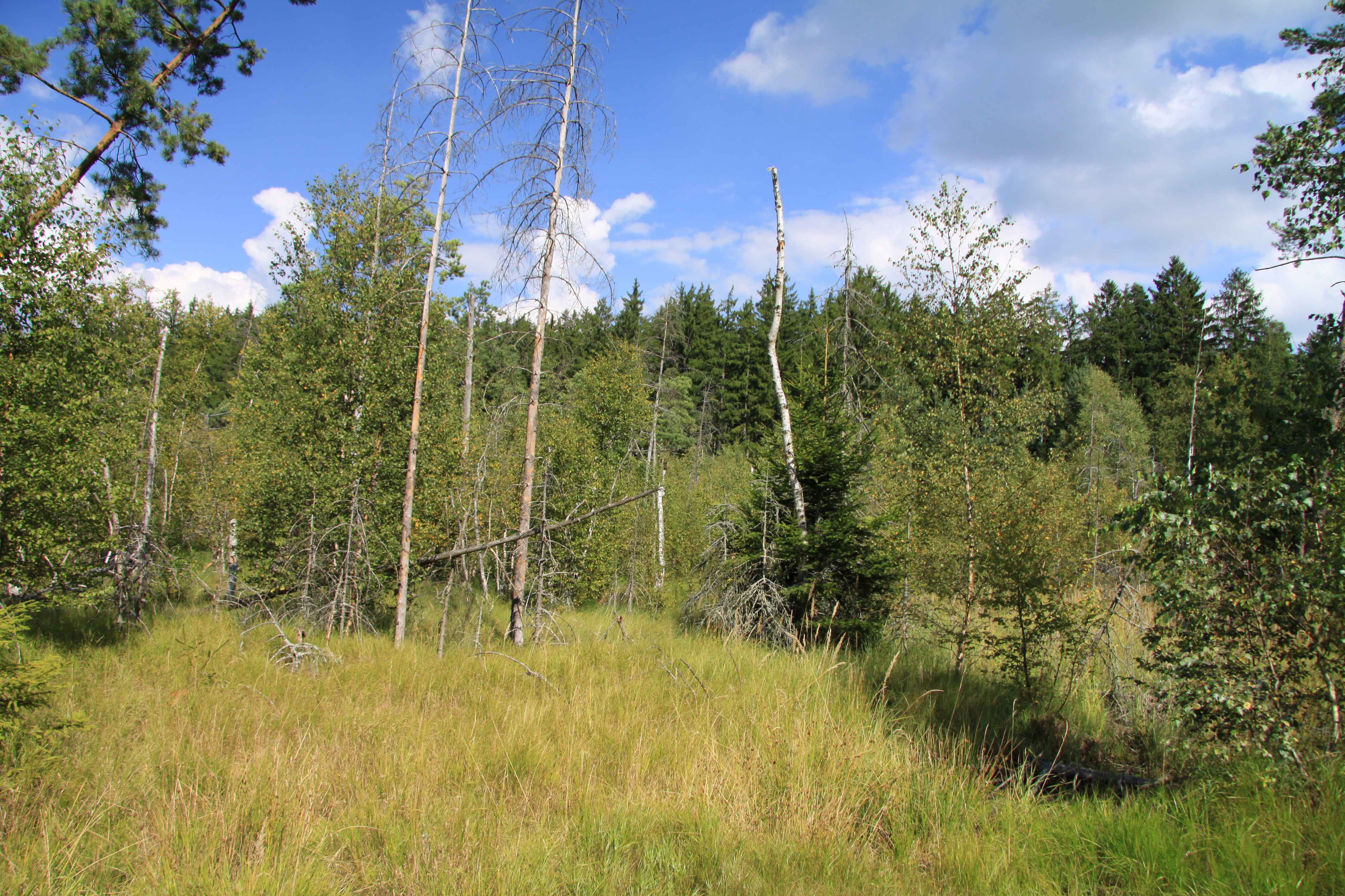 Natural monument Bachmač in Písek District, Czech Republic. This area is protected due to bog